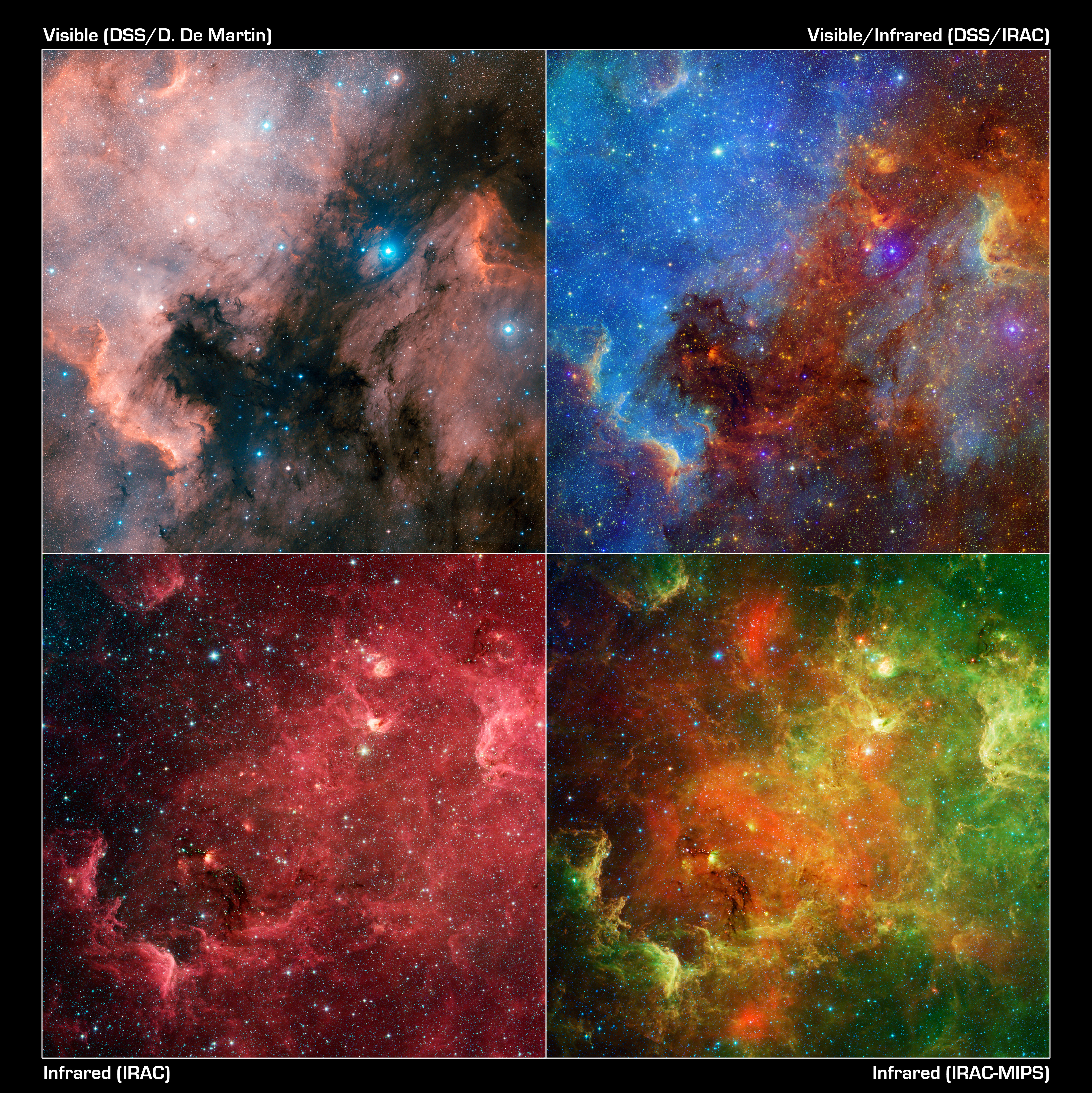 This layout of images reveals how the appearance of the North America nebula can change dramatically using different combinations of visible and infrared observations from the Digitized Sky Survey and NASA's Spitzer Space Telescope, respectively. In this progression, the visible-light view (upper left) shows a striking similarity to the North America continent. Each is cropped to the easterly bulk (thus also the quasi-"Gulf of Mexico" region). The red region to the right is known as the "Pelican nebula," after its resemblance in visible light to a pelican. The view at upper right includes both visible and infrared observations. The hot gas comprising the North America continent and the Pelican now takes on a vivid blue hue, while red colours display the infrared light. Inky black dust features start to glow in the infrared view. In the bottom two images, only infrared light from Spitzer is shown -- data from the infrared array camera is on the left, and data from both the infrared array camera and the multi-band imaging photometer, which sees longer wavelengths, is on the right. These pictures look different in part because infrared light can penetrate dust whereas visible light cannot. Dusty, dark clouds in the visible image become transparent in Spitzer's view. In addition, Spitzer's infrared detectors pick up the glow of dusty cocoons enveloping baby stars.